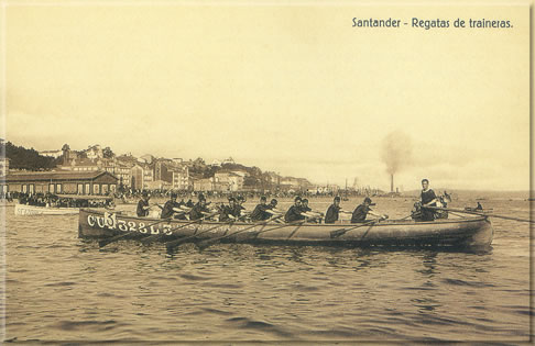 Panoramic view of a trainera in the Bay of Santander, Cantabria, Spain. Image printed on a postcard of the early 20th century published by El Escritorio stationers of Santander.